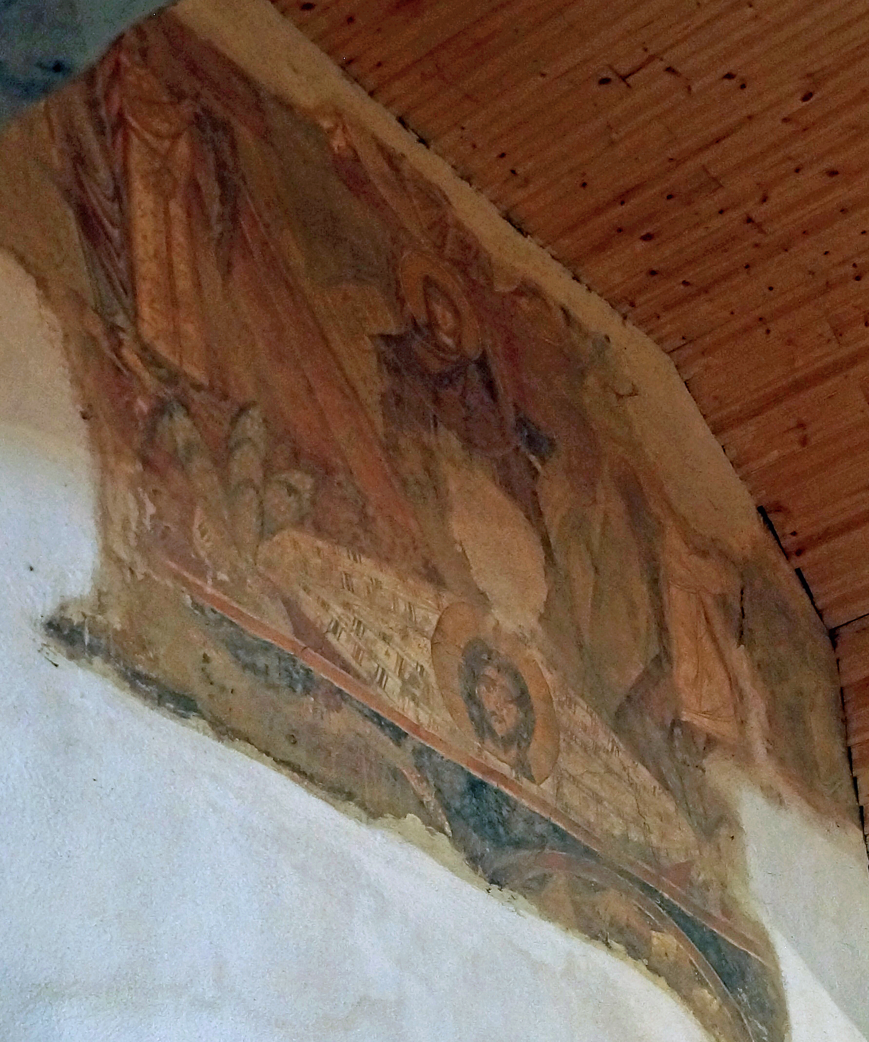 Frescos in St. Mary Church of Peshkëpi, Albania